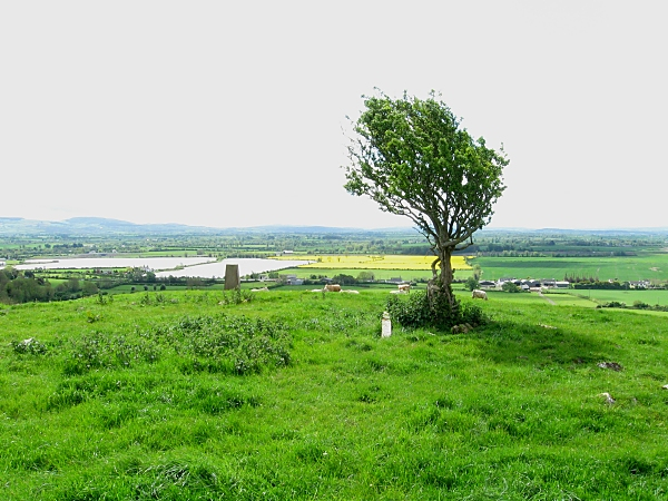 Lone Tree Lone whitethorn and trig pillar at summit of Freestone Hill. The site of an important Hillfort with evidence of use from Iron Age to Early Christian times. A number of Roman and sub Roman artifacts were excavated here.